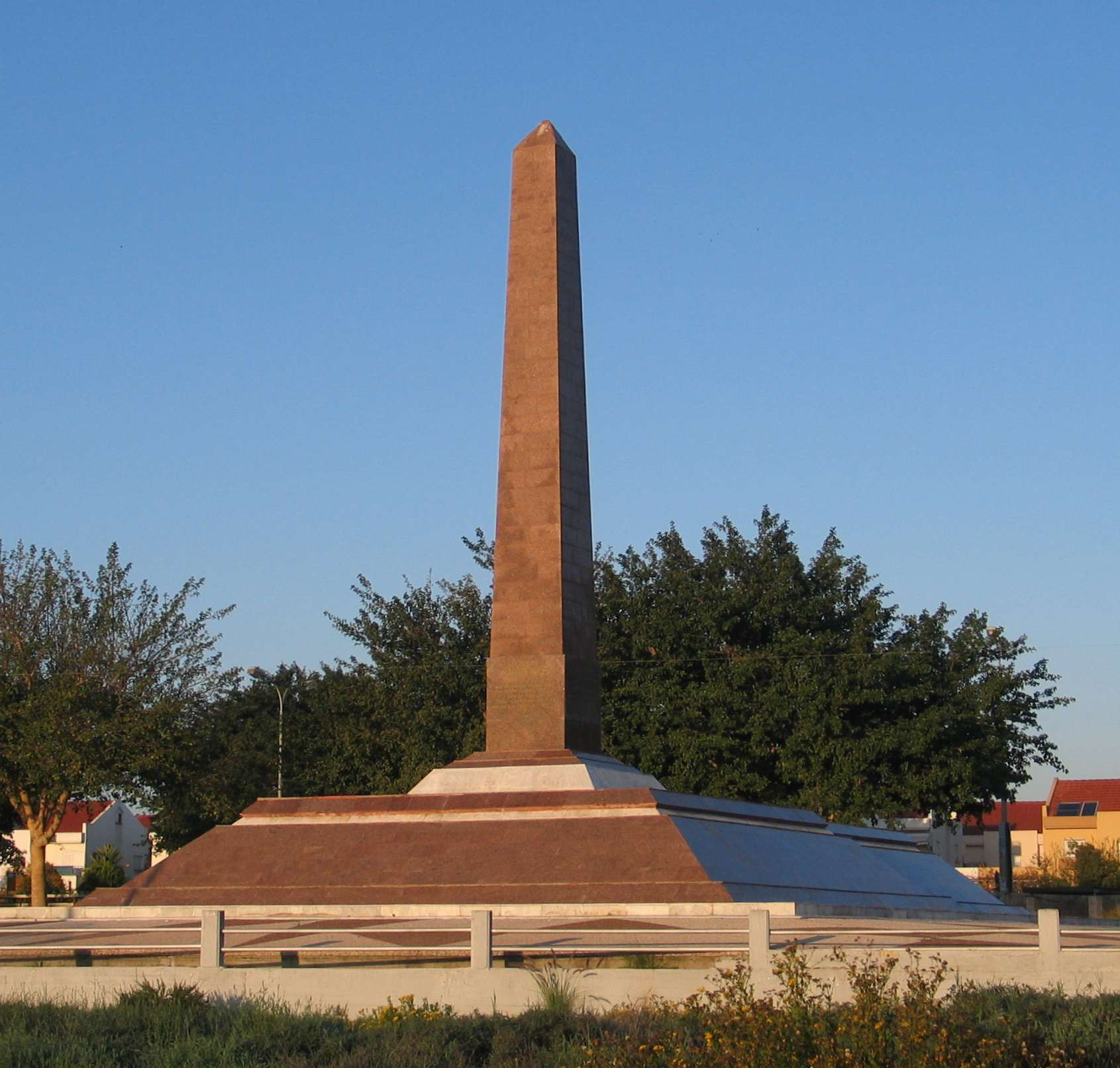 Park Ad Halom - Memorial to the fallen Egyptian soldiers.